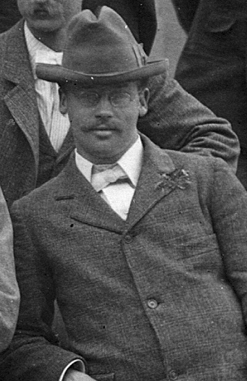 American geographer and meteorologist Cleveland Abbe, Jr. (1872-1934) at age 25. Cropped from a group photo taken at Jefferson Rock, Harpers Ferry, West Virginia.